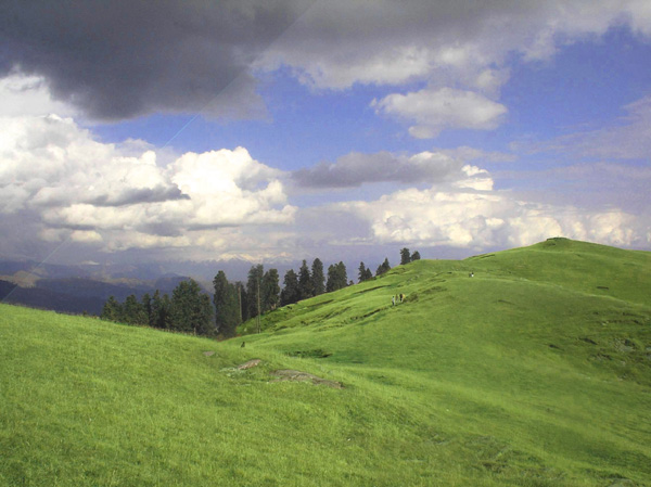 Toli pir